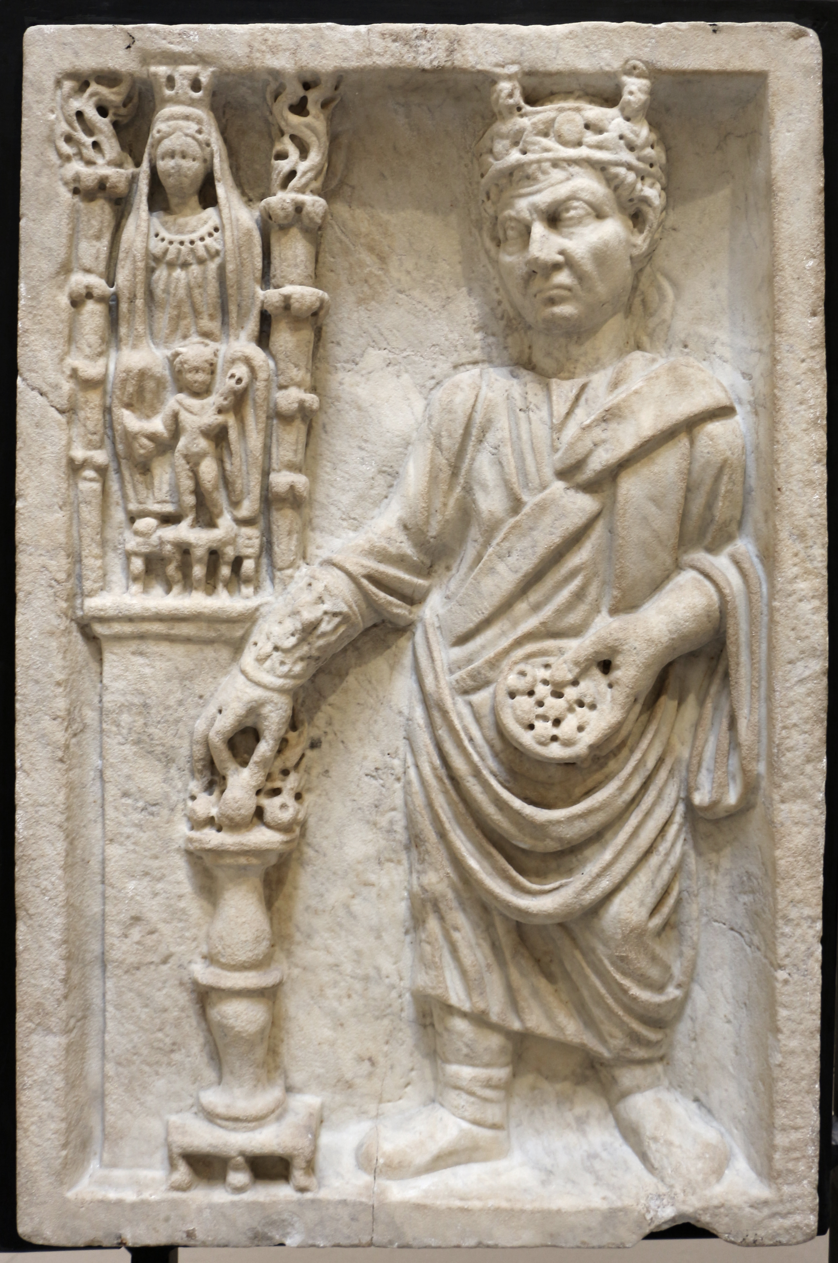 Ancient Roman reliefs in the Museo Ostiense (Ostia Antica)